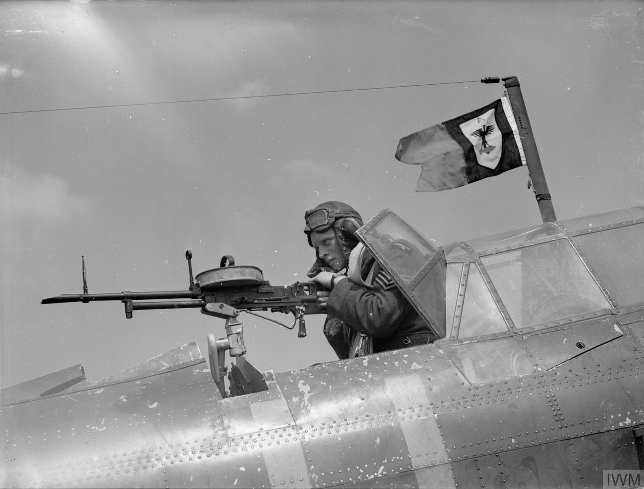 A sergeant air-gunner mans his .303 Vickers K-type gas-operated machine gun from the rear cockpit of a Fairey Battle of No. 103 Squadron RAF at St-Lucien Ferme near Rheges. Note the unofficial flight and squadron pennant flying from the radio mast.